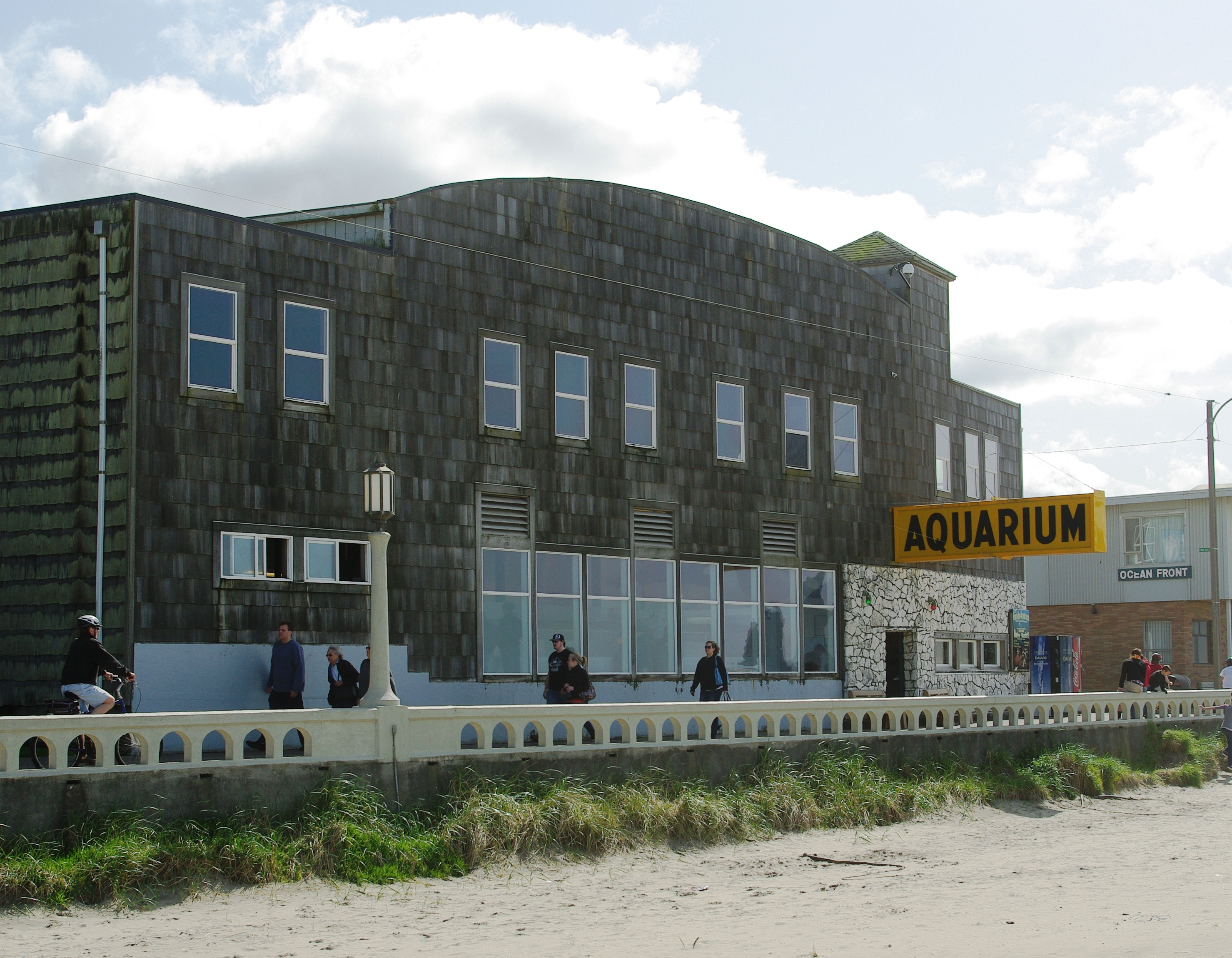 The Seaside Aquarium along the promenade in Seaside, Oregon.